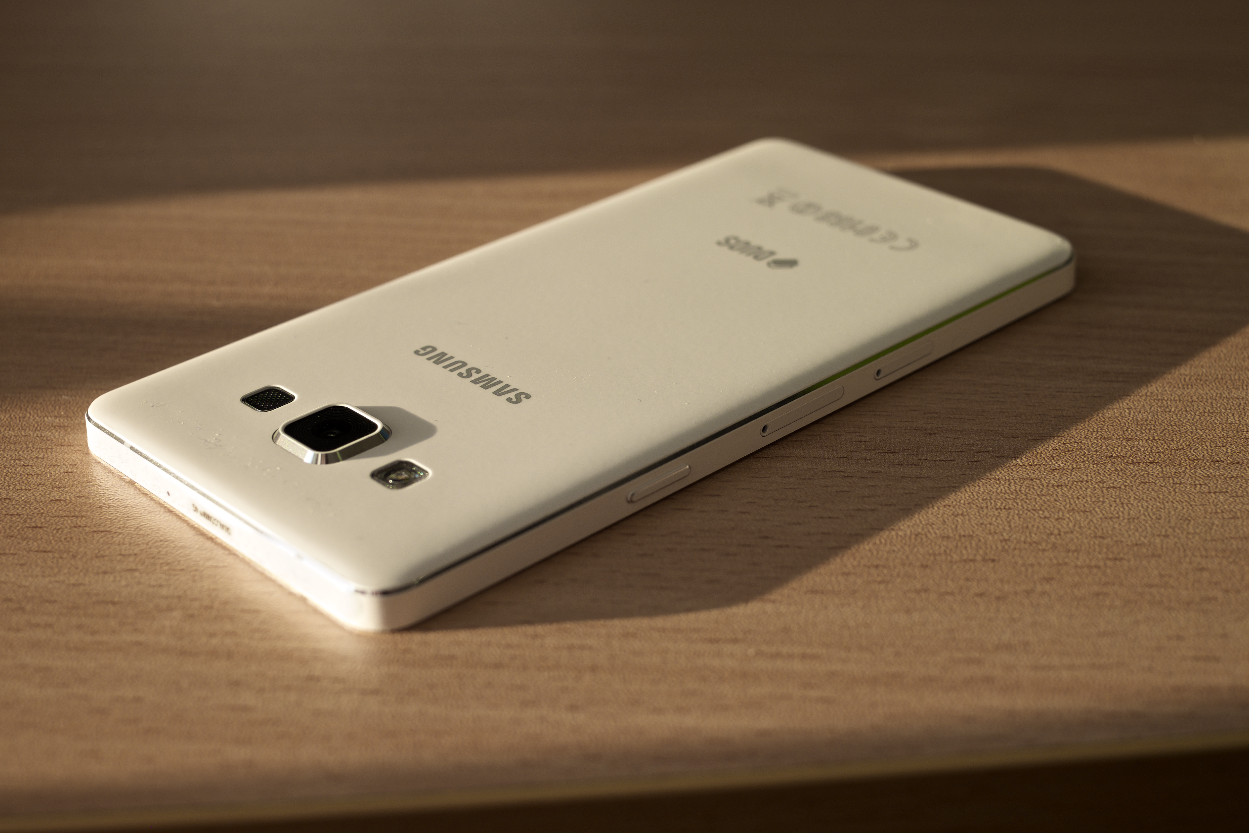 The back of Samsung Galaxy A5 Duos (SM-A500FU[1])